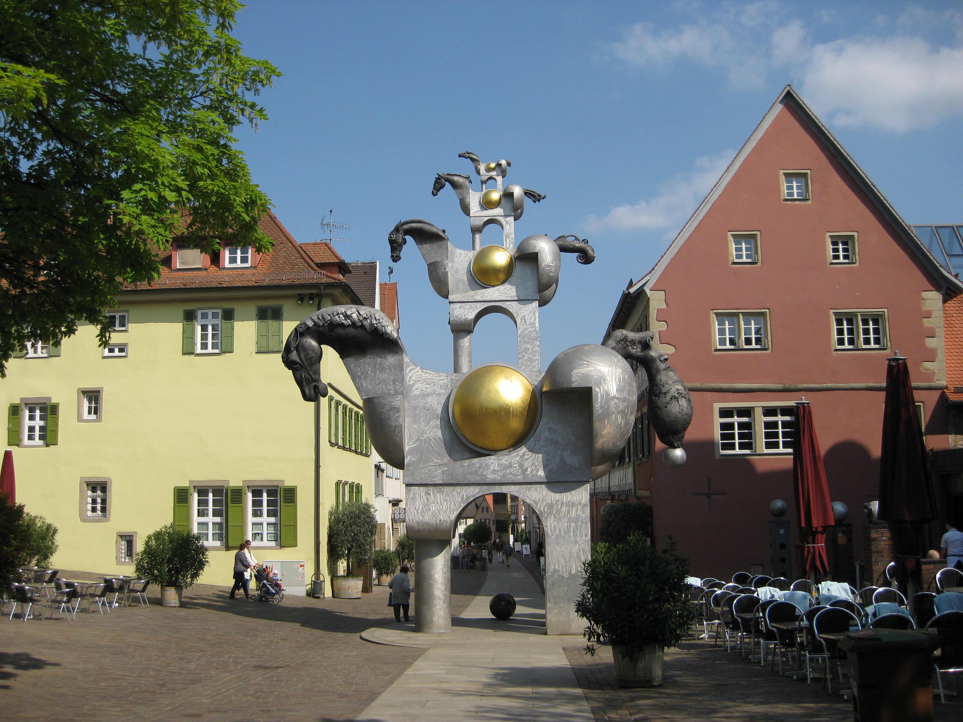 Sculptures in Bietigheim, Germany, Baden-Wuerttemberg, Juergen Goertz, Turm der grauen Pferde, 1993